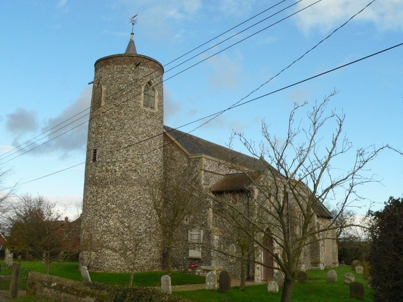 Tuttington St Peter and St Paul